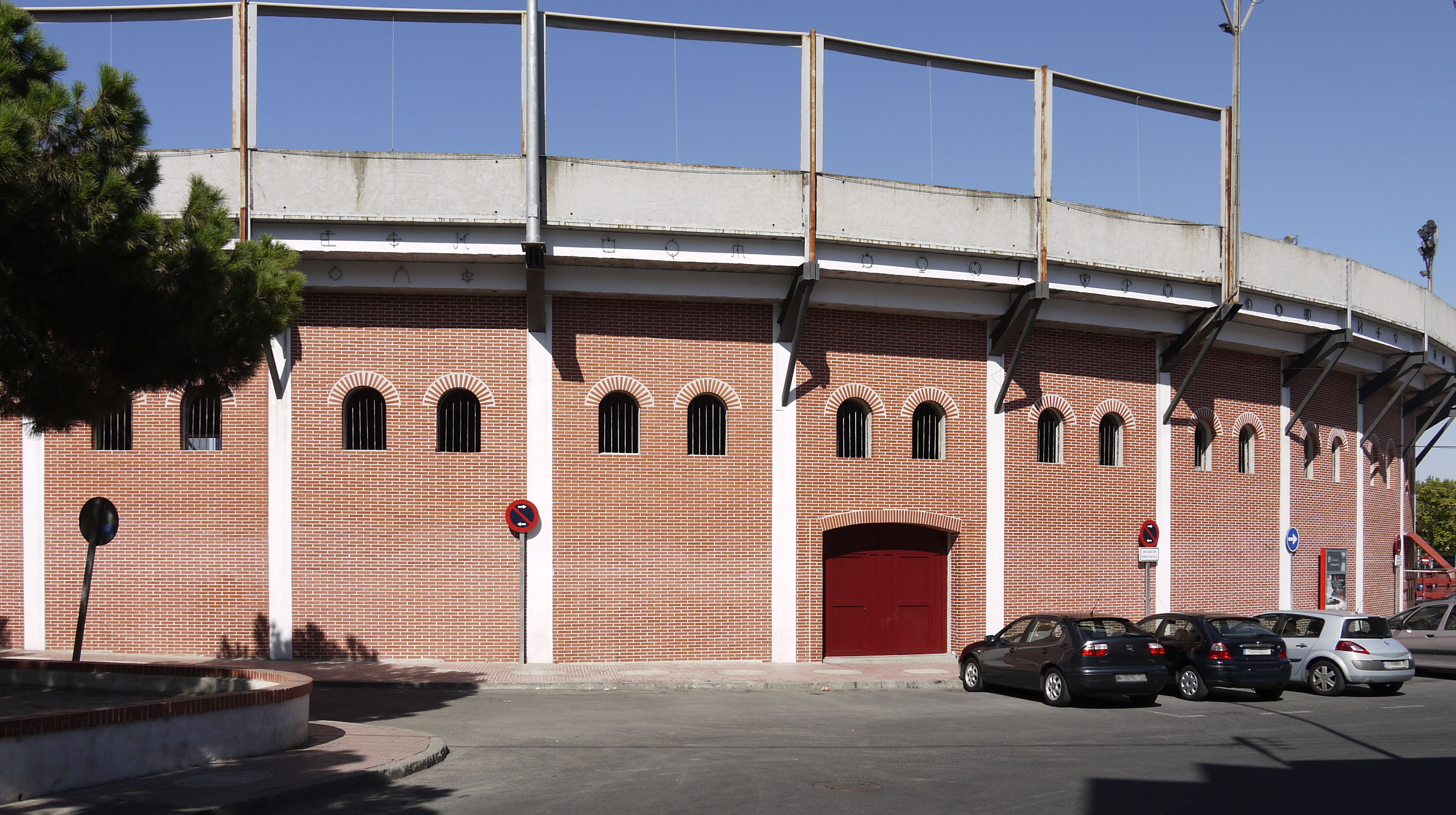 Plaza de Toros, "La tercera". San Sebastián de los Reyes, Spain.